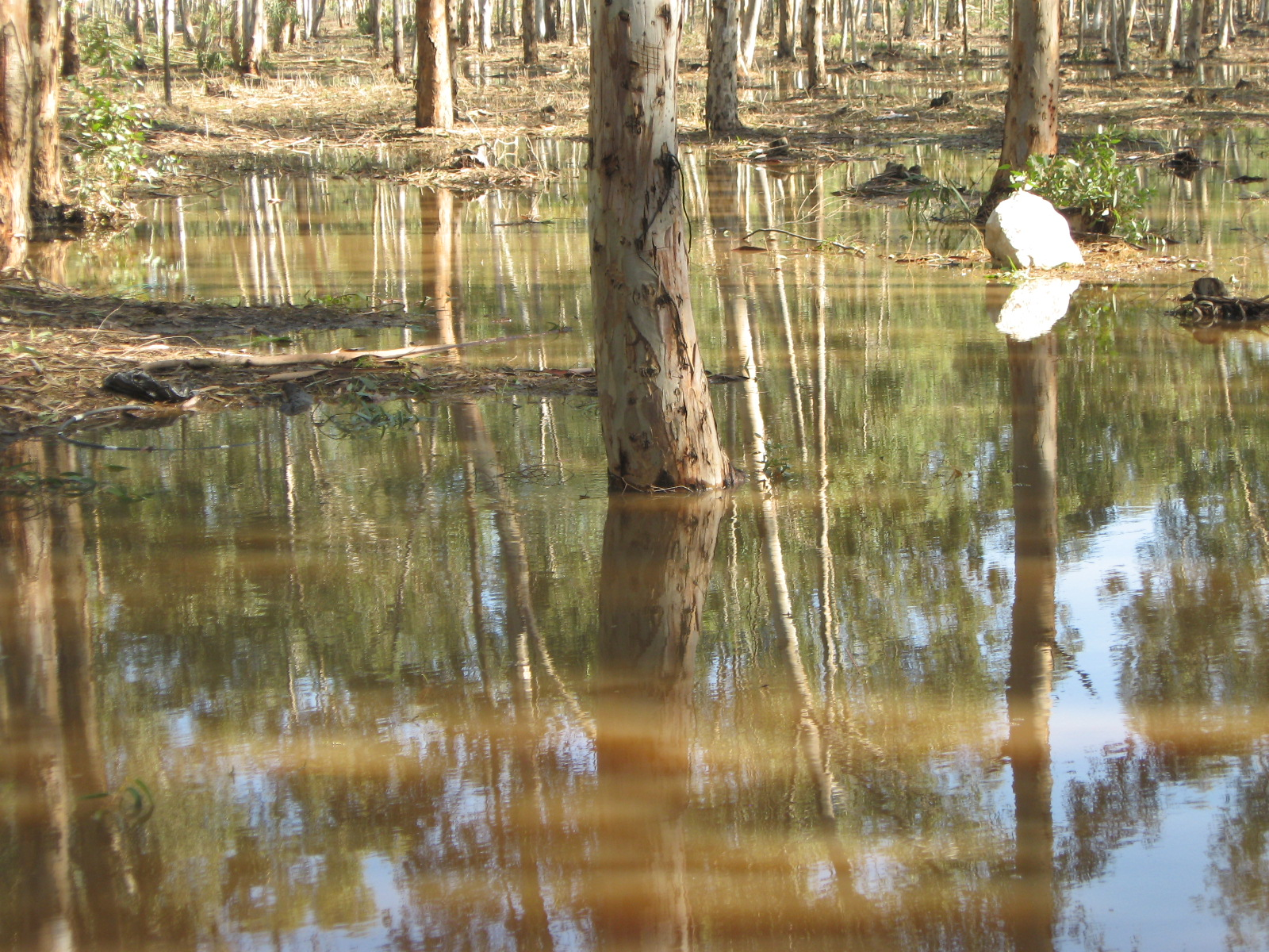 hadrea forest in the winter